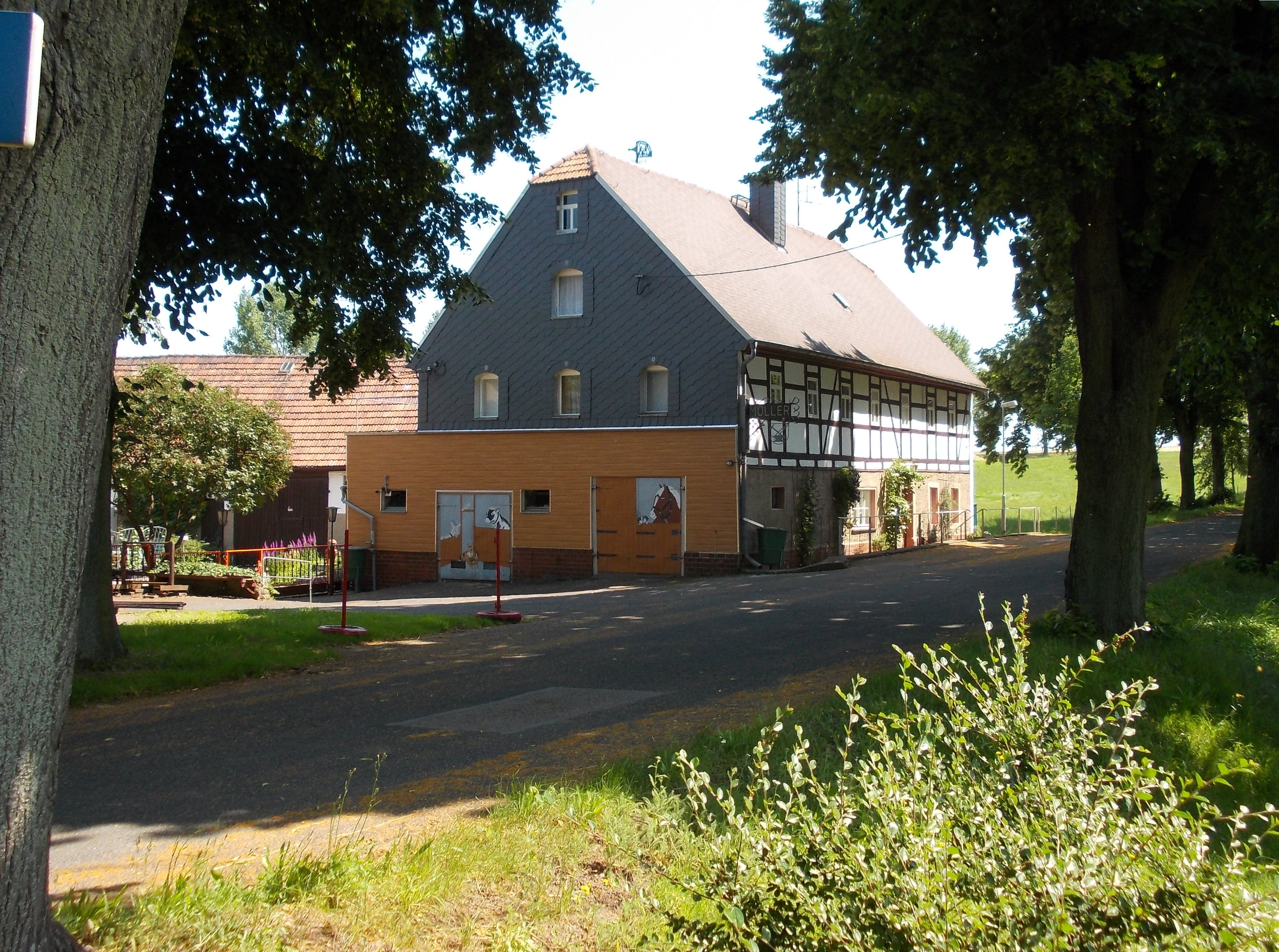 Half-timbered house in Raschütz (Colditz, Leipzig district, Saxony)